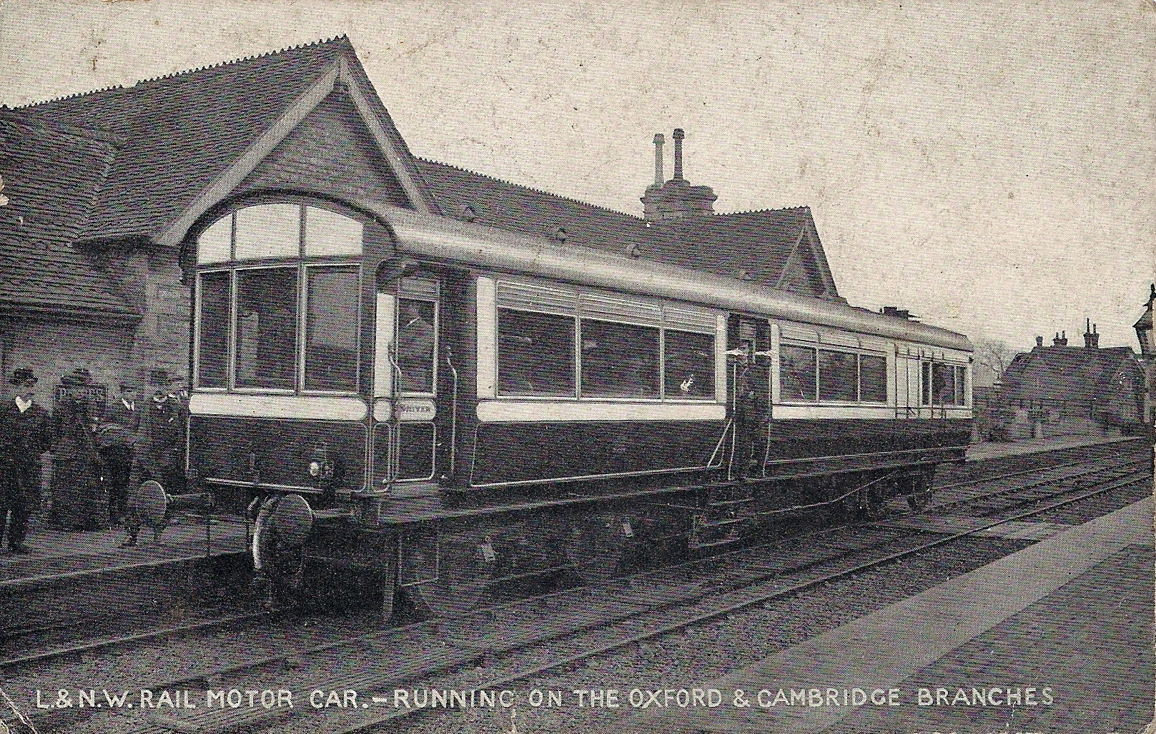 LNWR railcar at Bicester Town railway station